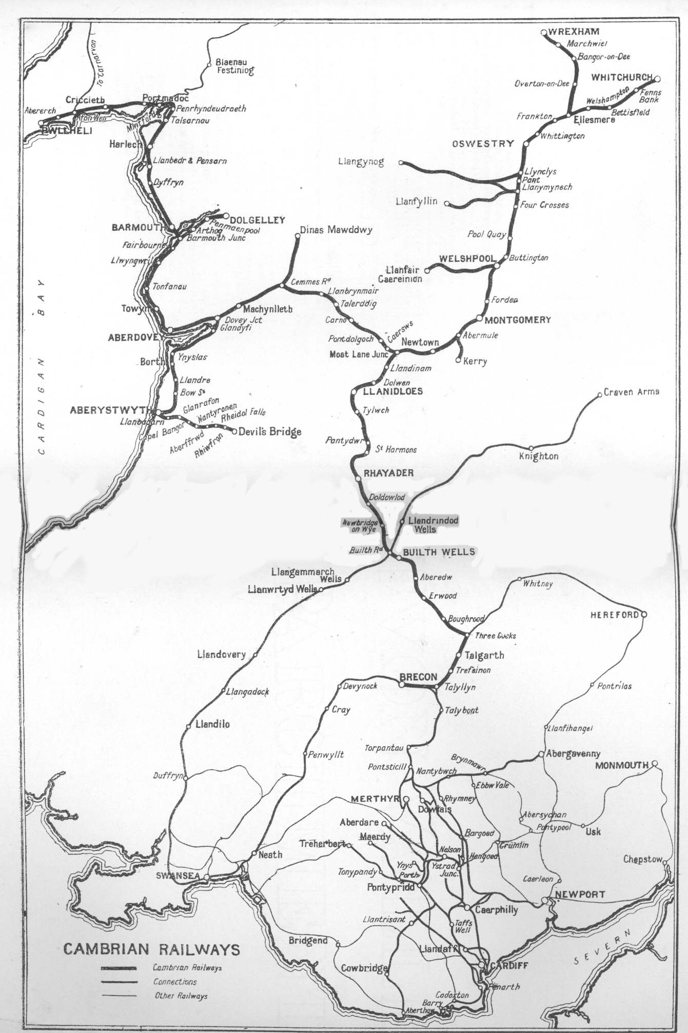 Cambrian Railways map c.1921 Project Gutenberg eText 20074 Cambrian Railways